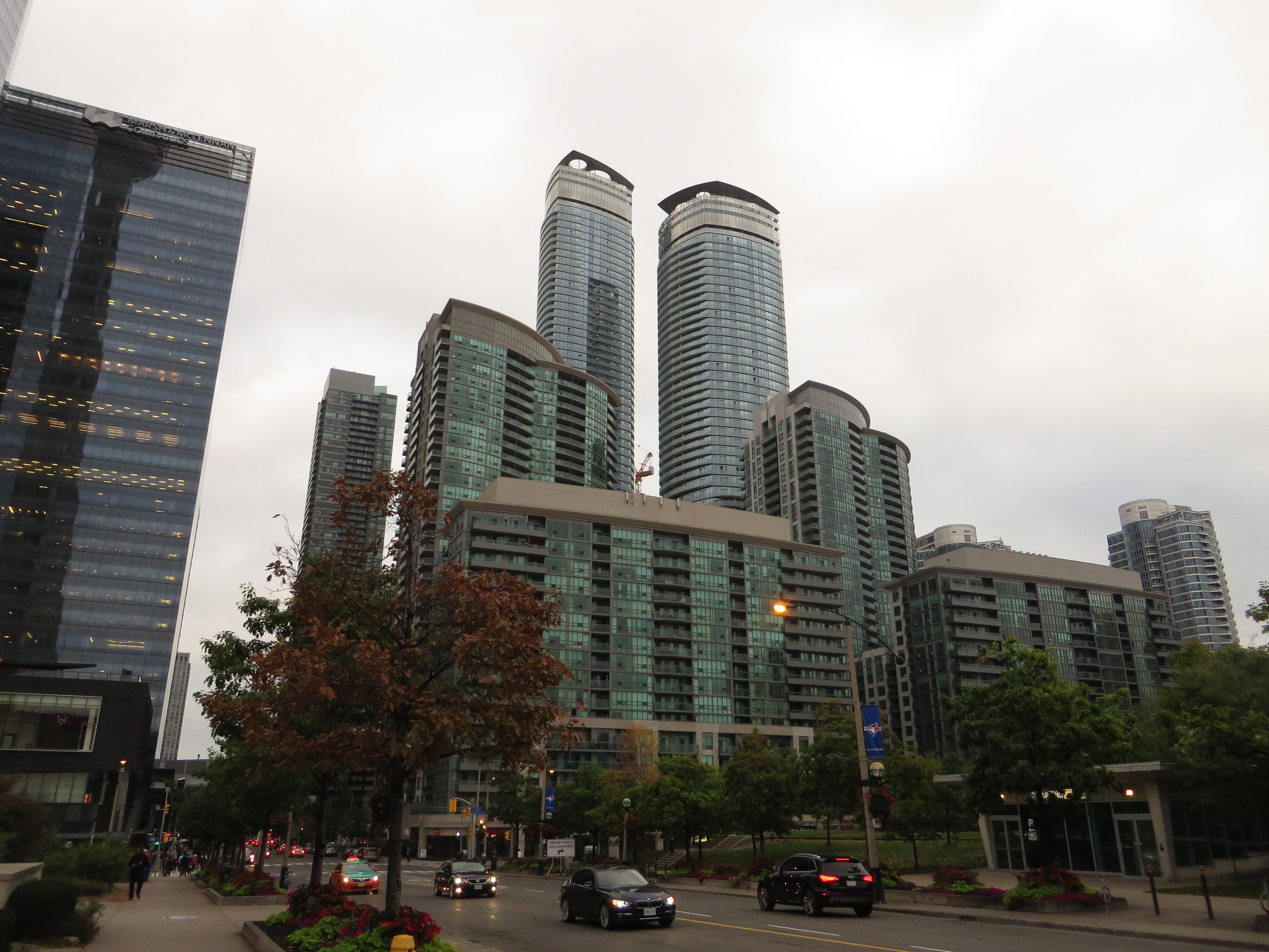 South Core is a neighbourhood located in downtown Toronto, Ontario, Canada. The remodeling and restoration of Union Station and the construction of a new wave of business and condominium towers is central to this area's forecast growth. The area has grown rapidly in the last several years. Toronto's Gardiner Expressway is currently being rebuilt to provide a new one-acre park in the area. Two ramps to the expressway at York and Bay streets are being removed to make room for the park. The South Core was once part Toronto Harbour and now lies on land fill done from the 1850s to 1920s to accommodate railway lines. In the 1950s, the Gardiner Expressway emerged to cut off much of the city from the lakefront as rings of highways were built around many North American cities as was the trend at the time. In previous decades, much of the land was unusable due to its designation as rail lands. Today, that stigma is gone as multiple business and condominium towers have risen and more continue to be built. The name South Core derives from south of the downtown (or financial) core of the city. The name of the area mimics the district names Soho in New York City and Soho in West End of London. In October 2013, Delta Hotels announced a new flagship hotel central to South Core. Maple Leaf Square, home to Air Canada Centre and thus the home of the Toronto Raptors and Toronto Maple Leafs, sometimes plays host to live broadcasts of sporting events on the huge video screen facing Bremner Boulevard. RealSports Toronto sports bar is located in Maple Leaf Square. The Telus Tower and the PricewaterhouseCoopers buildings are prominent office towers in the district.